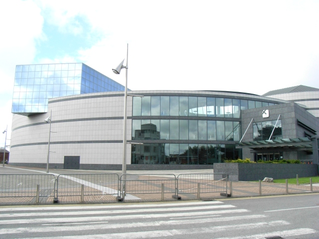 The Helix , Dublin City University Described as a "performance space". Home to Ireland's largest concert hall.